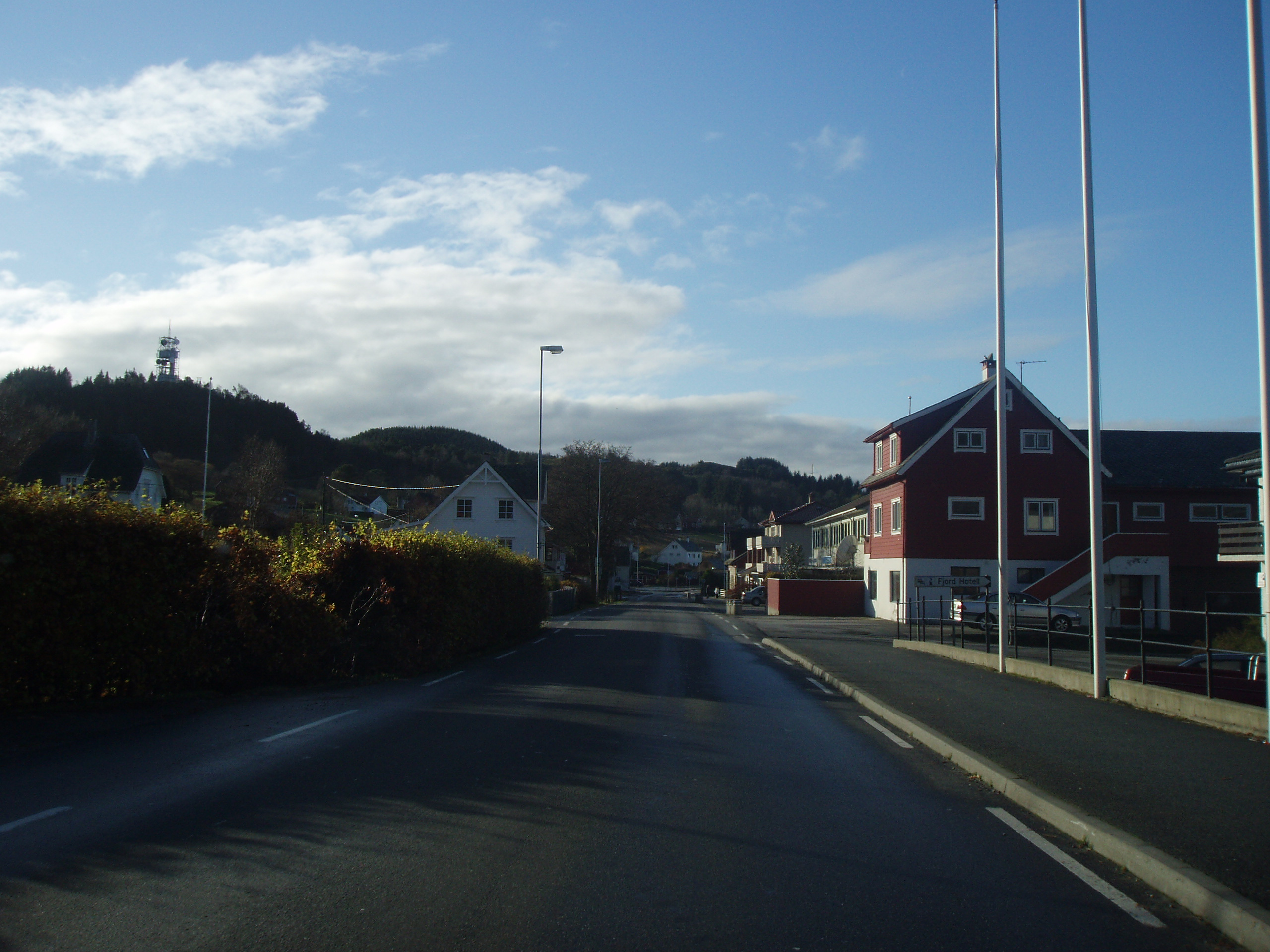 Fitjar sentrum - the main street through center of Fitjar